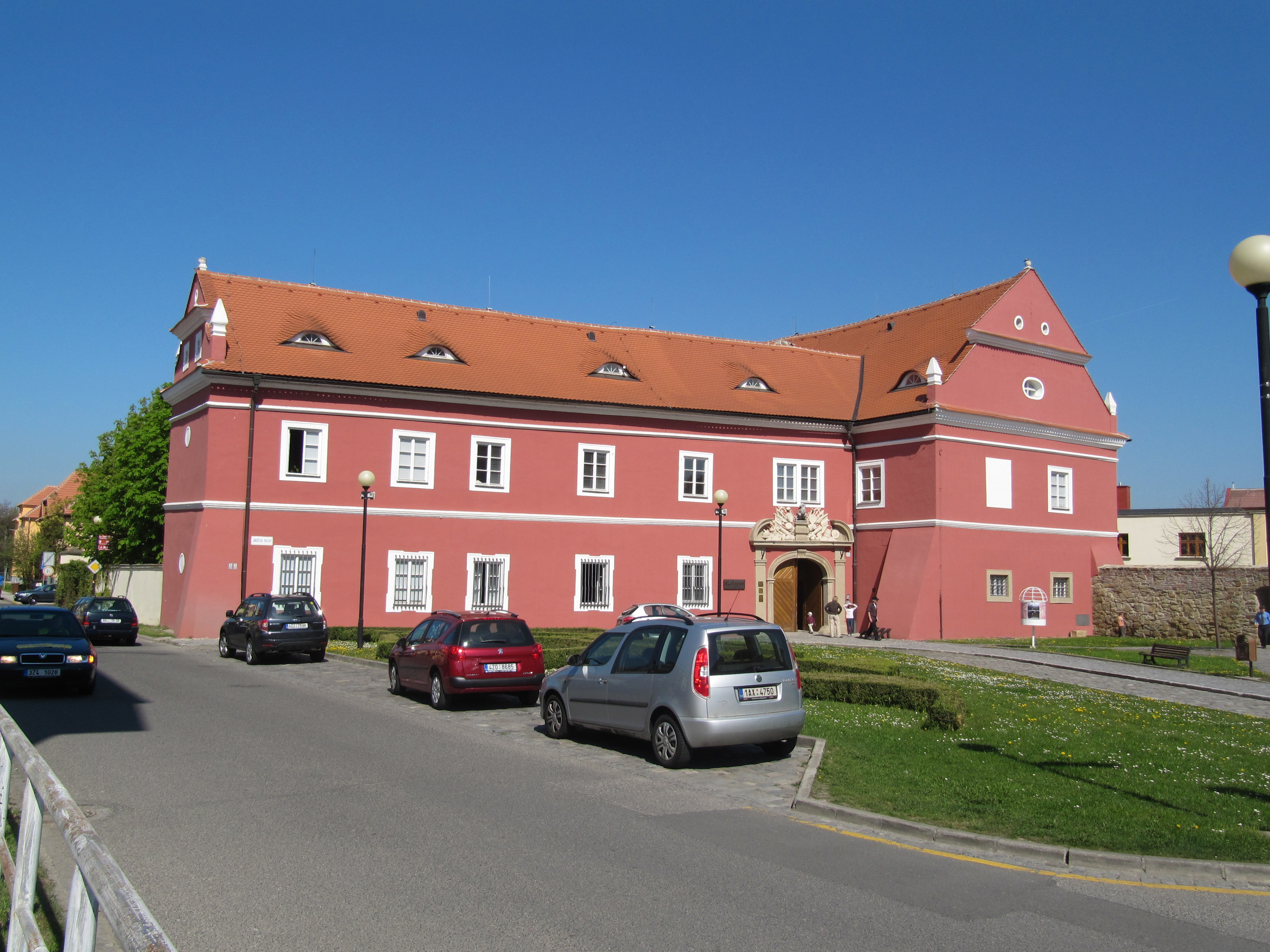 Uherské Hradiště, Czech Republic. Former armory, now Slovácké Museum Gallery.